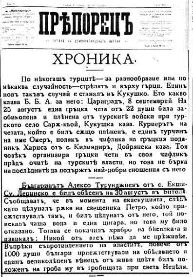 An article in the bulgarian newspaper "Pryaporetz", 1905